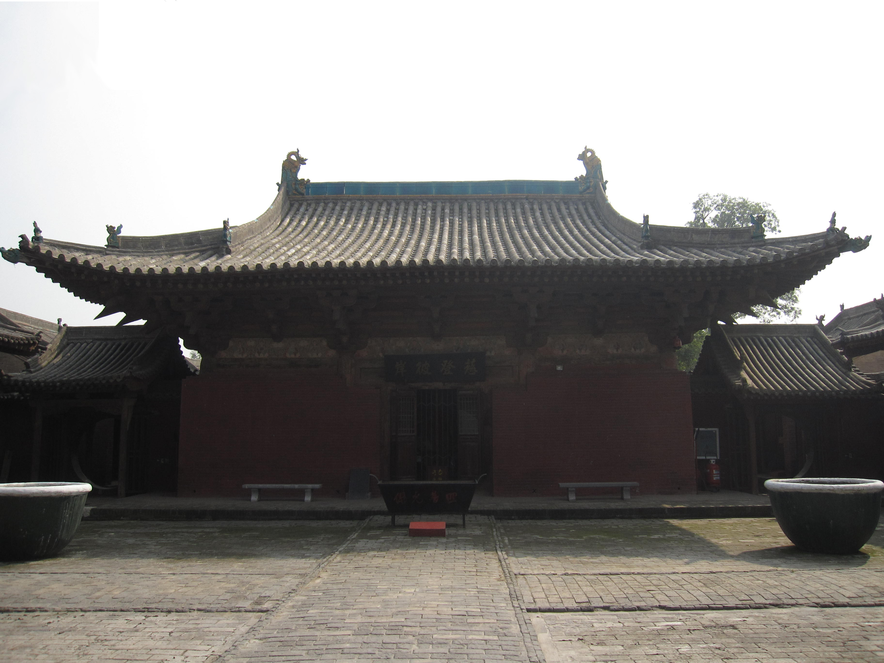 The Wanfo Hall of Zhenguo Temple